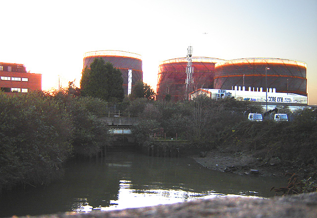 Chelsea Creek, Chelsea, London with Imperial Wharf gasworks in background. 21 January 2006. Photographer: Fin Fahey.